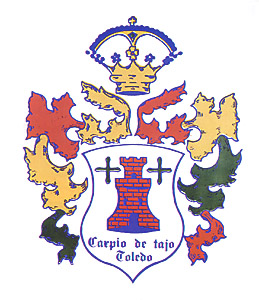 Escudo El Carpio de Tajo